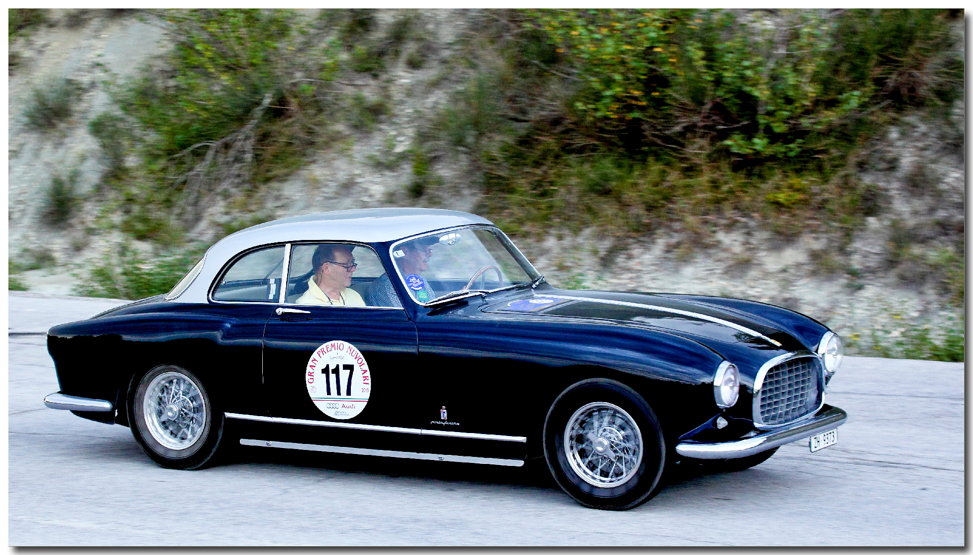 ROELL ACKLIN - CH - FERRARI 212 INTER PININFARINA 1953